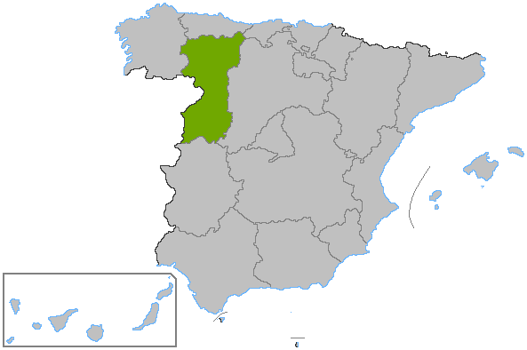 Location of Region of Leon, in Spain. Basado en: ProvPont.jpg Source: Designed by Gabri-co. Original picture, designed by Sobreira.